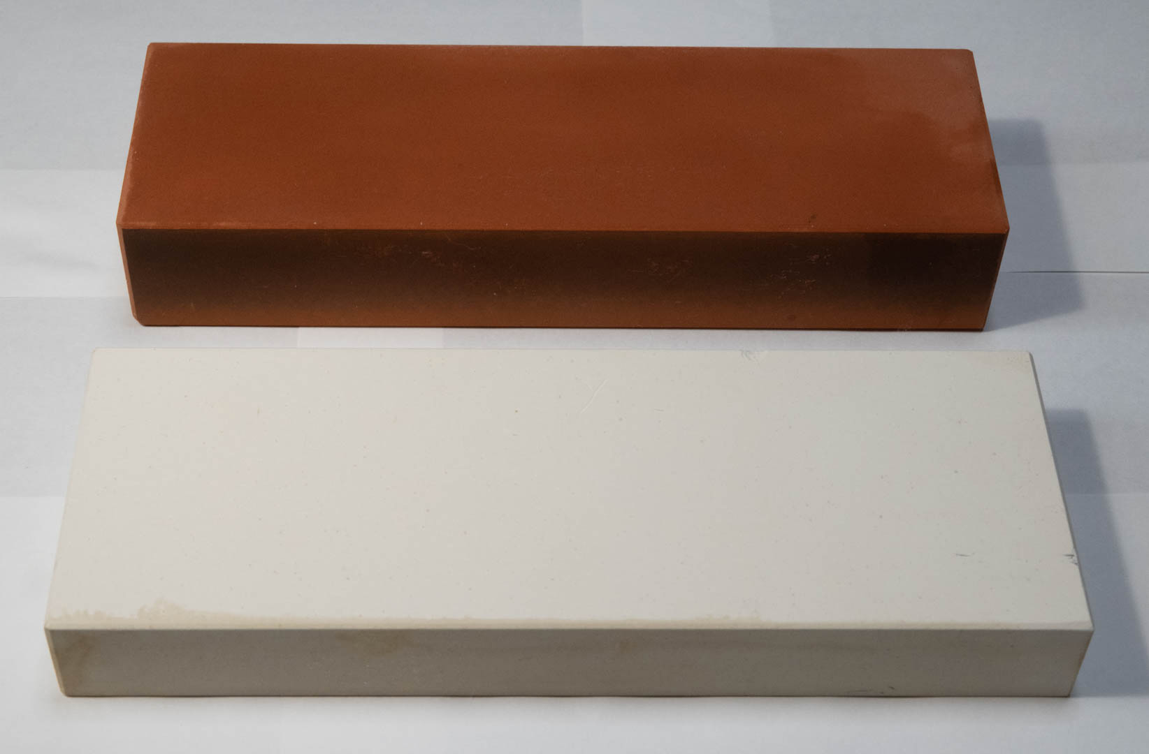 Examples of sharpening stones made by resinoid method. The front one uses epoxy resin while the one in the back uses phenolic resin.